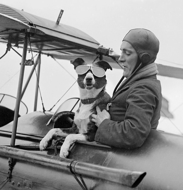 Mr Barnard, a member of the London Aero Club, makes sure that his canine co-pilot has the right goggles.